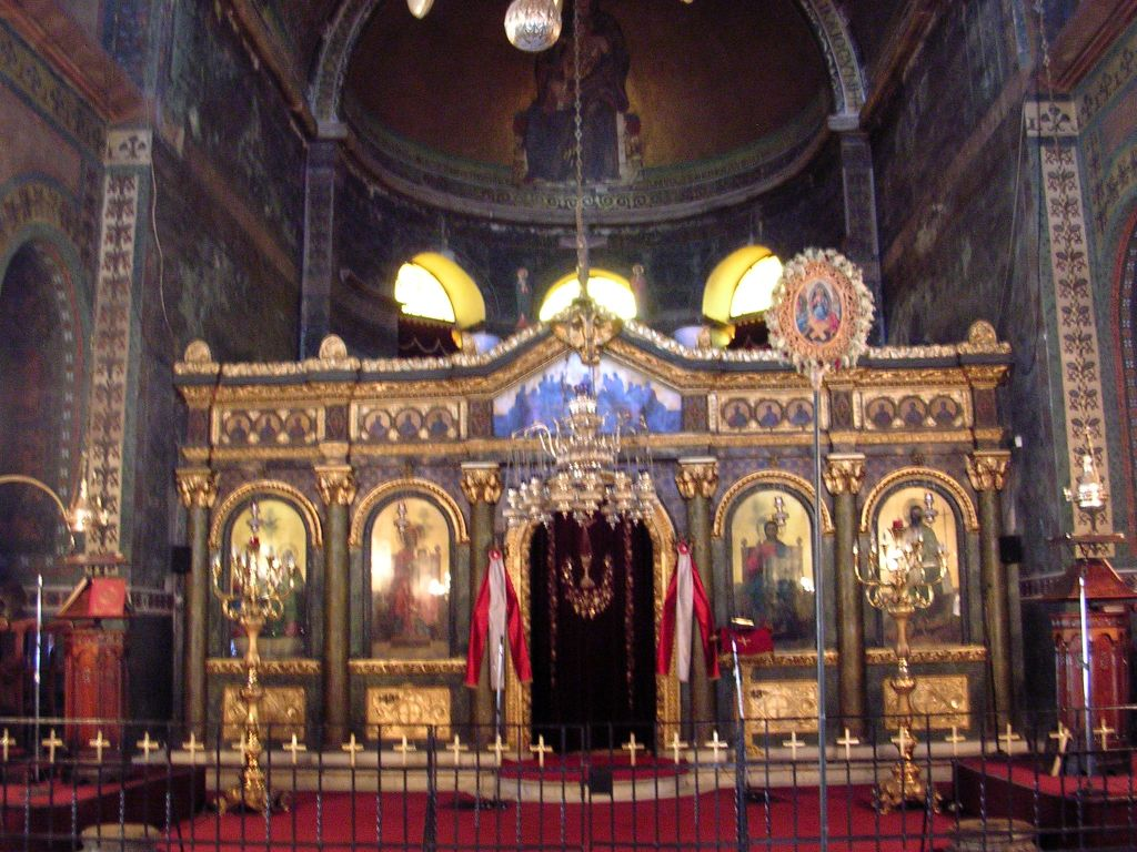 Church of Holy Wisdom, Thessaloniki